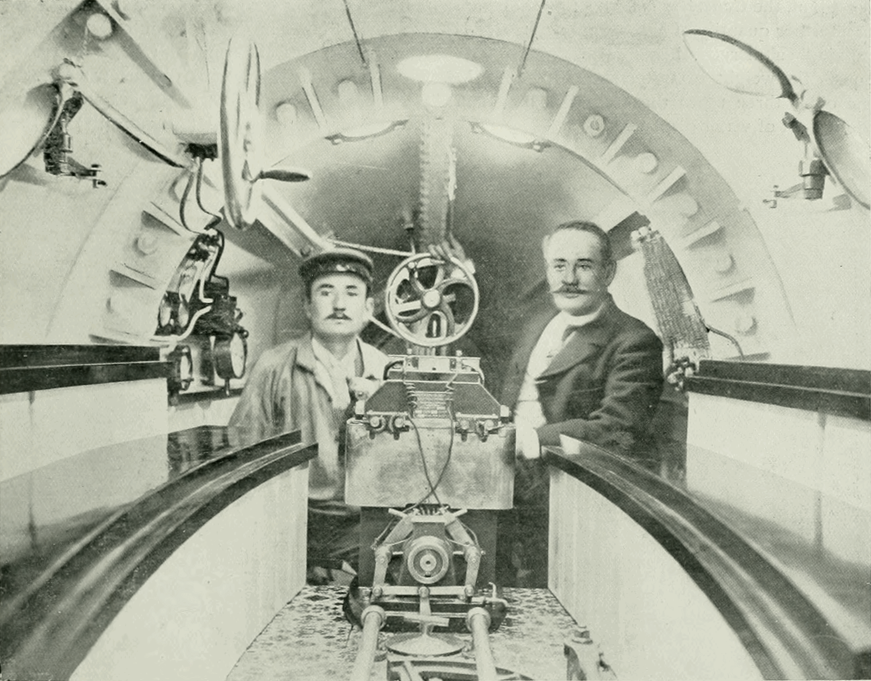 Photo of the interior if the Goubet submarine, made by the French engineer Claude Goubet (1837-1903). Mr. Goubet is seen to the right in this illustration from Page's Magazine No. 2 from 1902. That issue had an article about the developement of submarines.